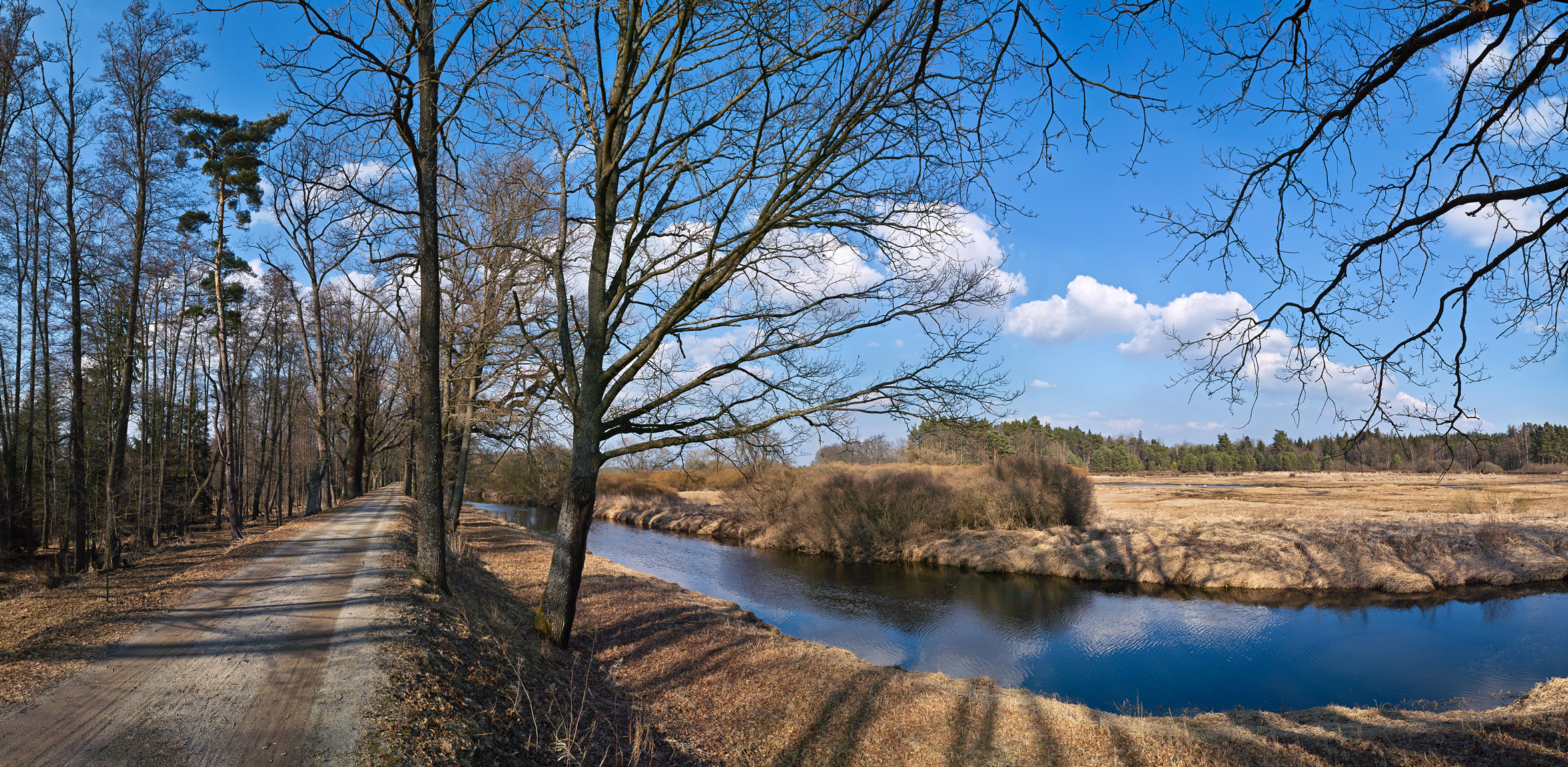 Nová reka (New river) and nature reserve Novořecké močály (New rivers' swamps), Jindřichův Hradec District, Czech Republic